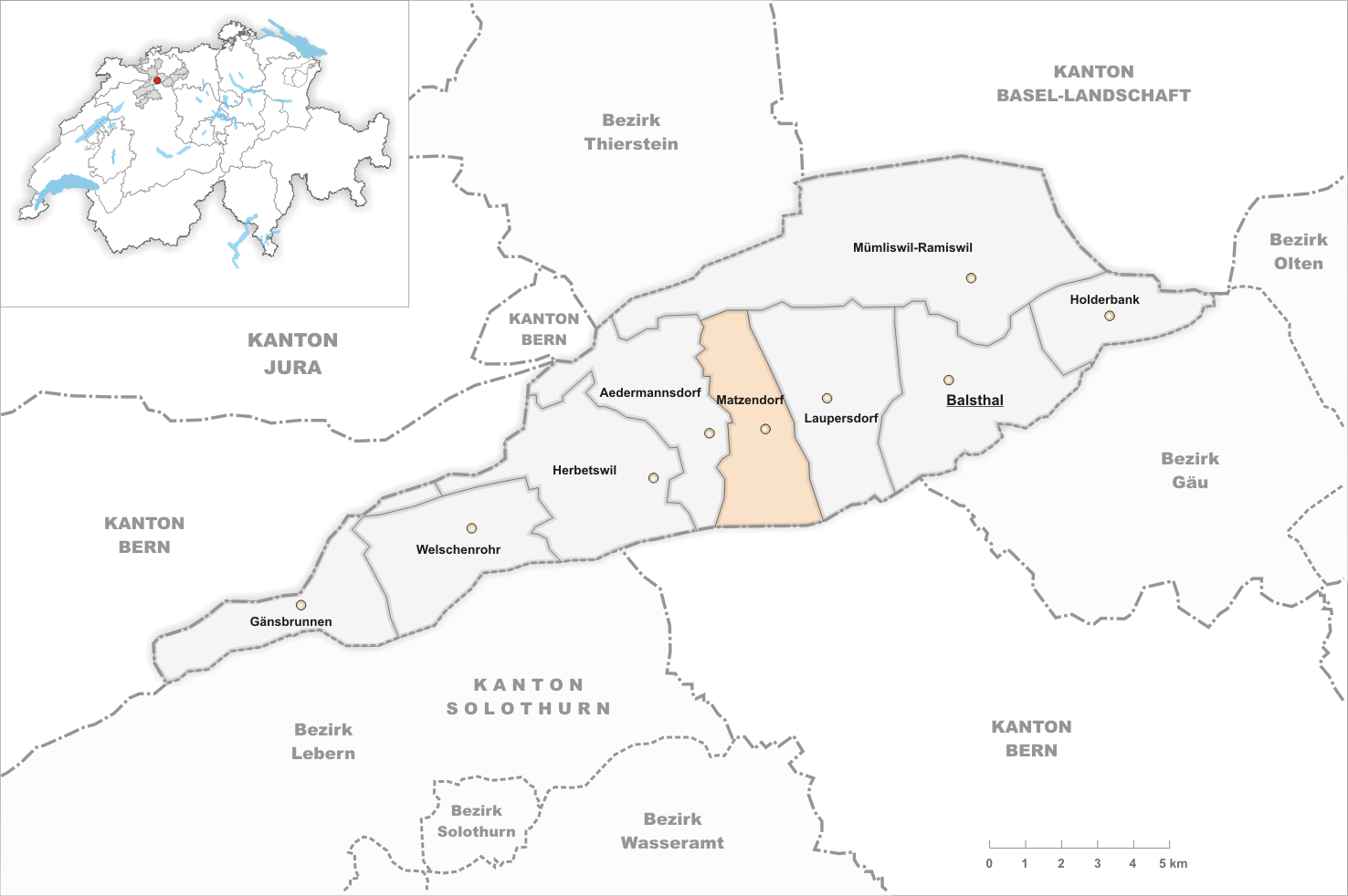 Municipality Matzendorf